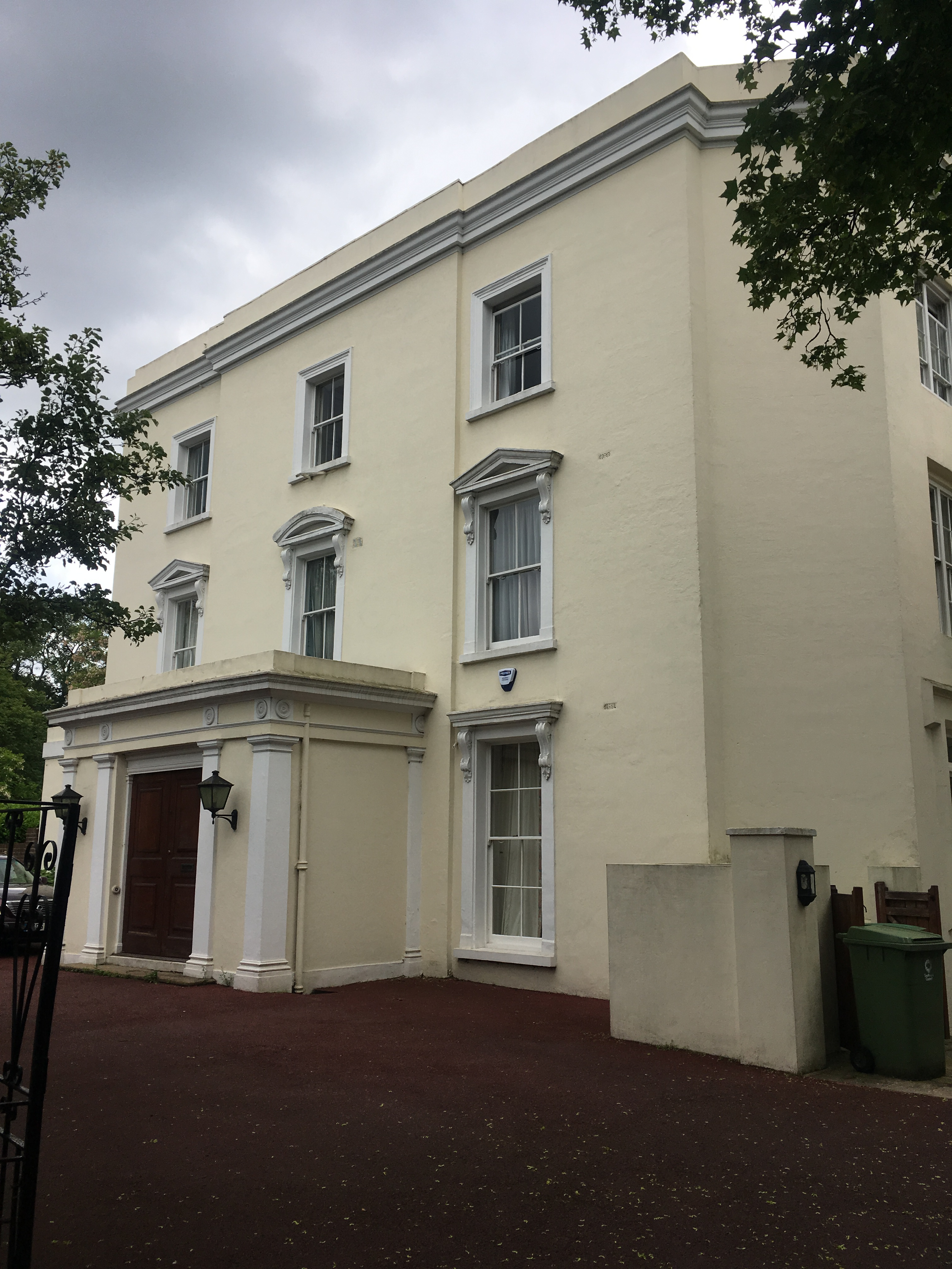 Howlettes Mead Wikidata has entry Q26665193 with data related to this item.